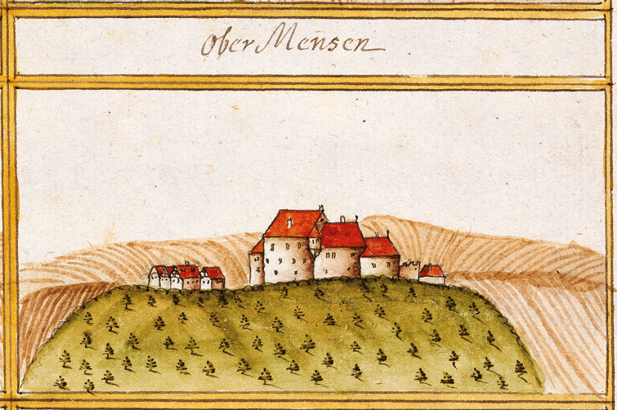 View of Obermönsheim, Mönsheim, from the forest register books created by Andreas Kieser